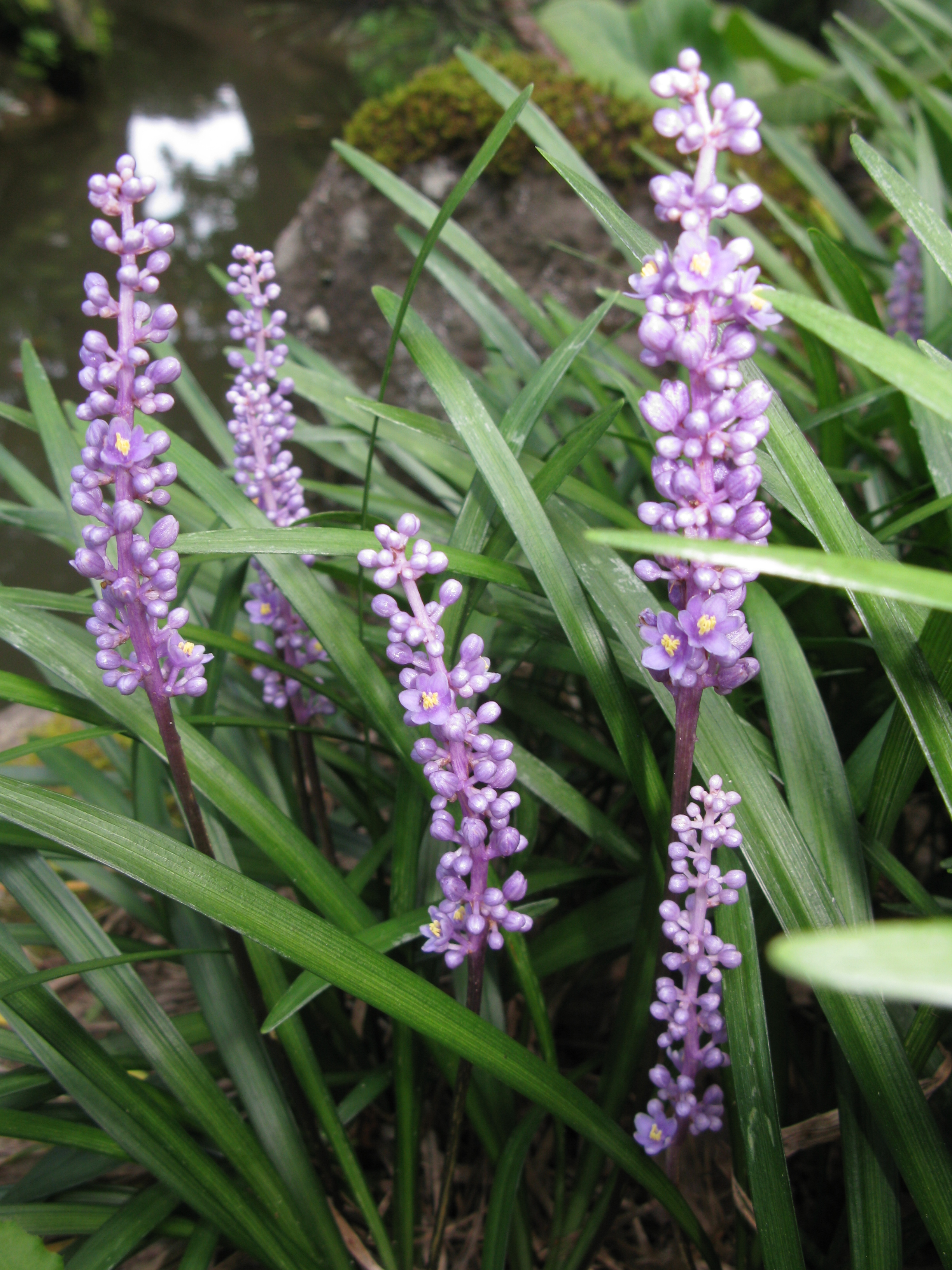 Liriope muscari, Aizu area, Fukushima pref., Japan